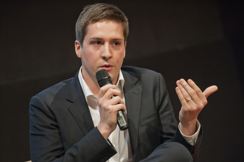 Rupert Schiessl Innov'Eco Dec 2010